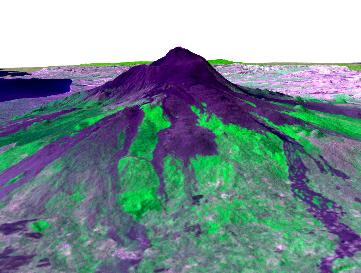 False color 3D view of Mt. Etna (Sicily, Italy), generated by means of combination of ASTER (Advanced Spaceborne Thermal Emission and Reflection Radiometer) satellite images and elevation model derived from SRTM (Shuttle Radar Topography Mission) data. For further details follow source link below.